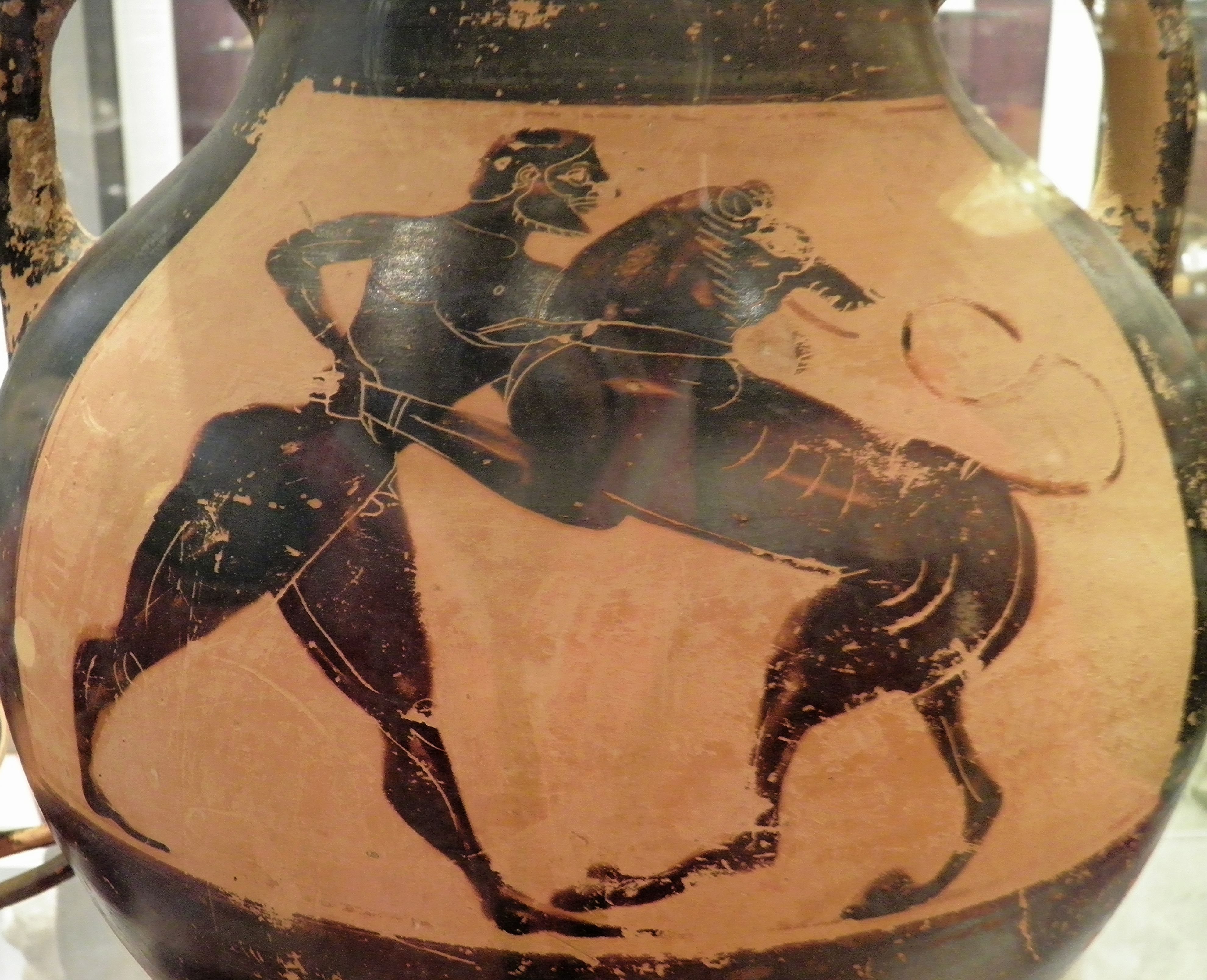 Athenian black-figure amphora, 6th century BC, Heracles wrestling with the Nemean lion, Ashmolean Museum